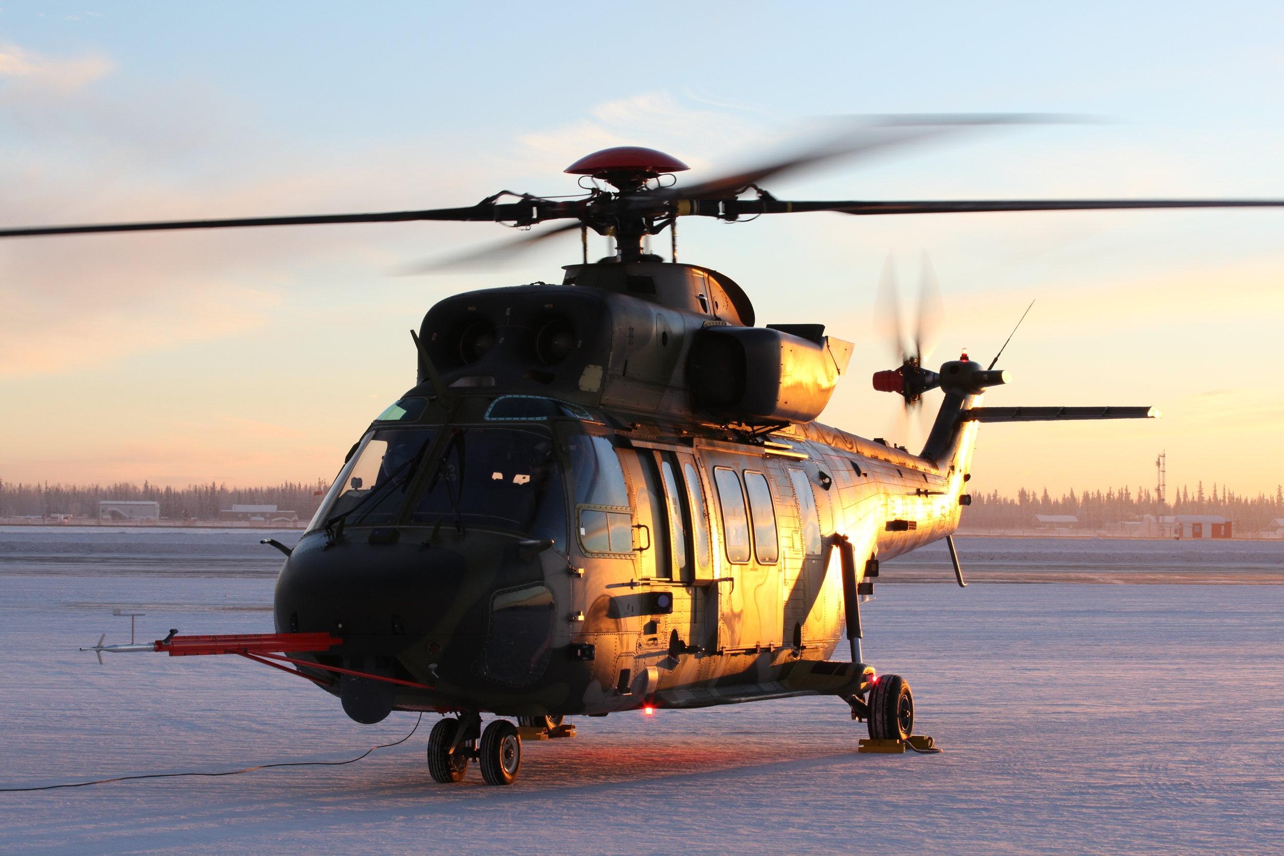 Korean Utility Helicopter Prototype (KUH-1/ Surion) / Ready to takeoff in Alaska / Photo by KAI (2013) 한국항공우주산업